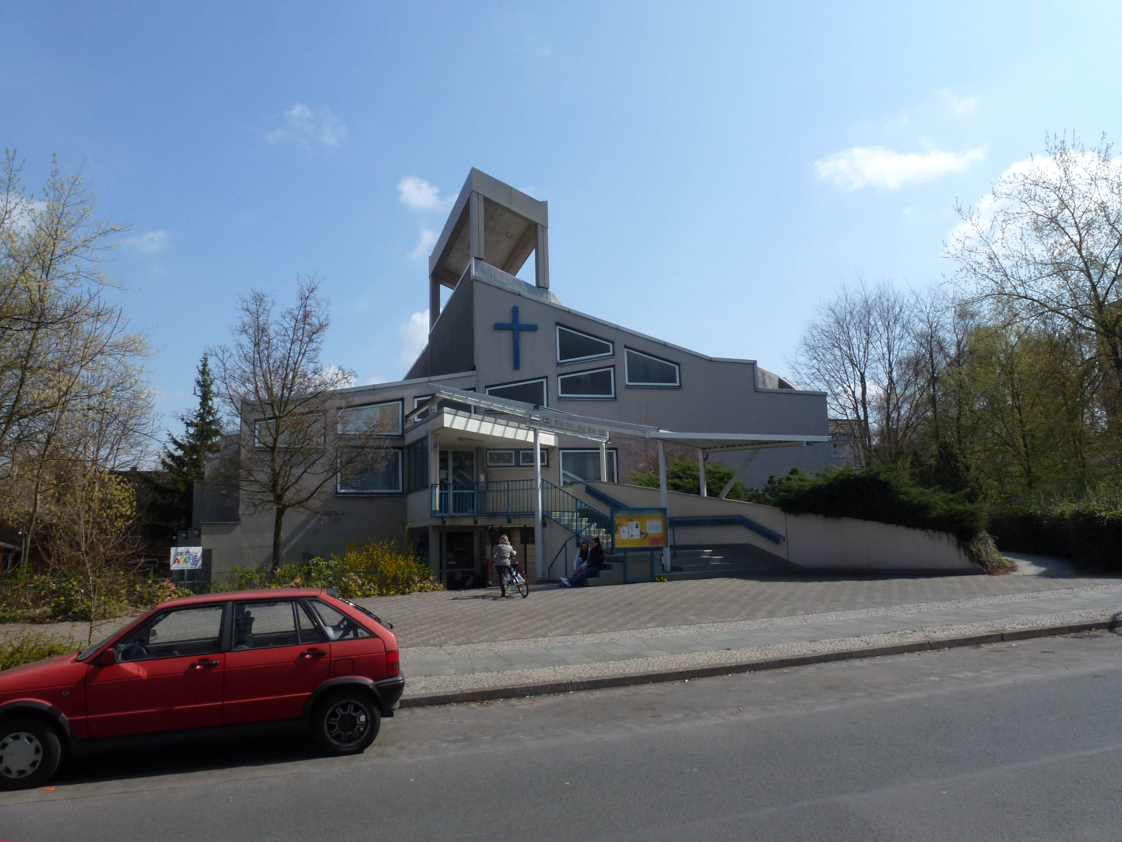 Berlin-Wedding Brienzer Straße Gemeindezentrum Kapernaum